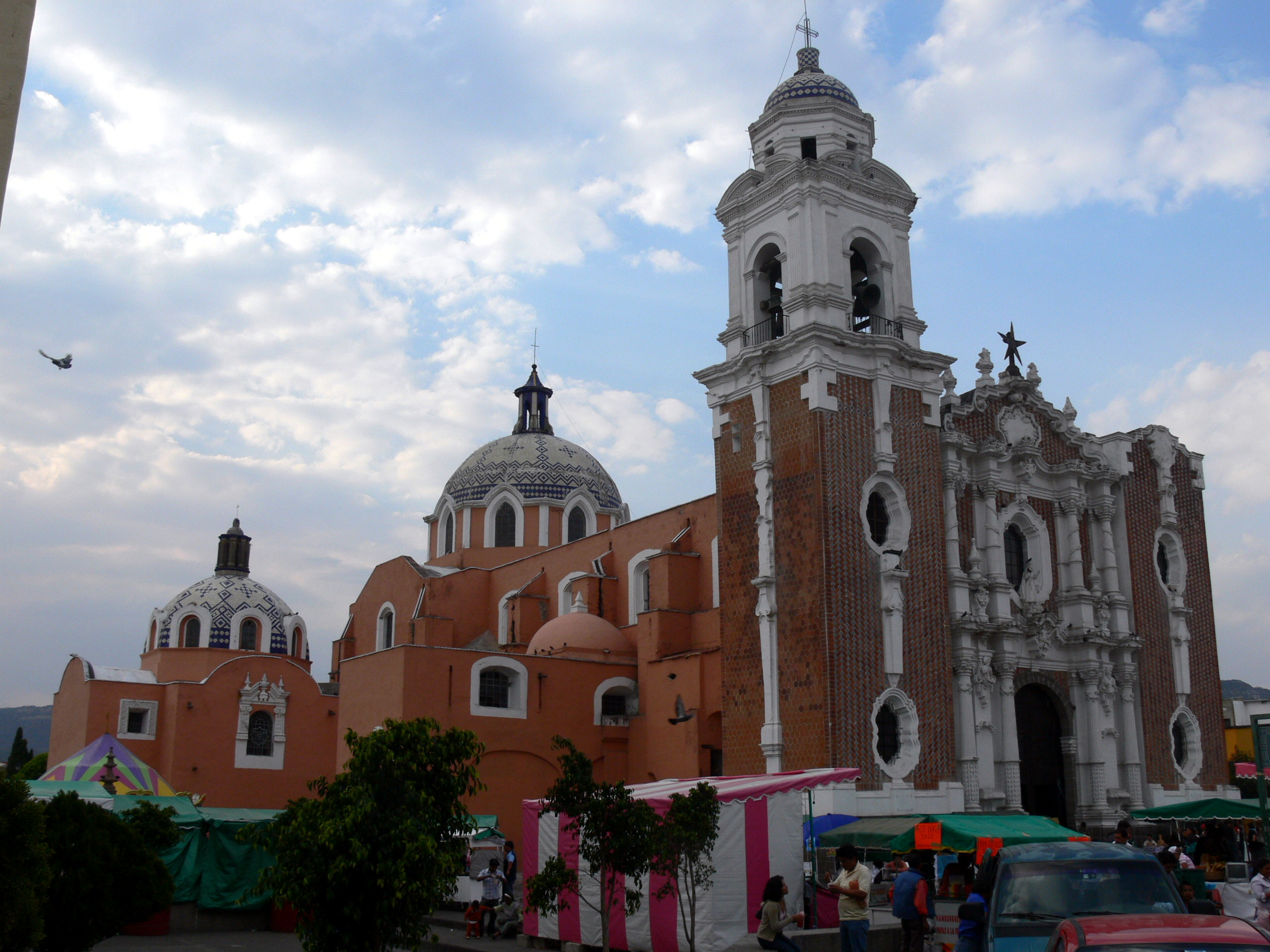 Tlaxcala city. San José parish church ( 18th century ).